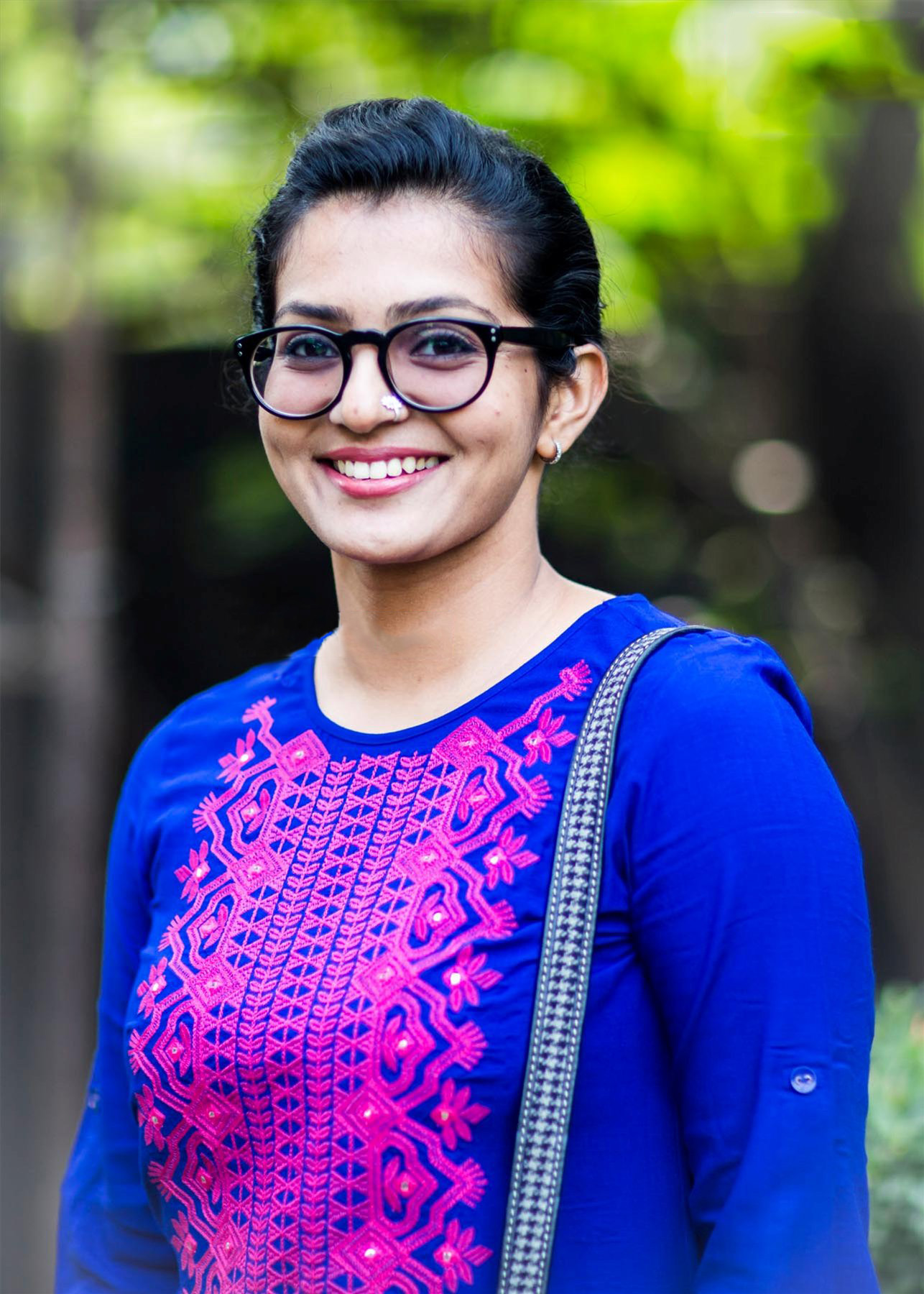 Parvathi Menon Photos from Bangalore Naatkal Teaser Launch Press Meet